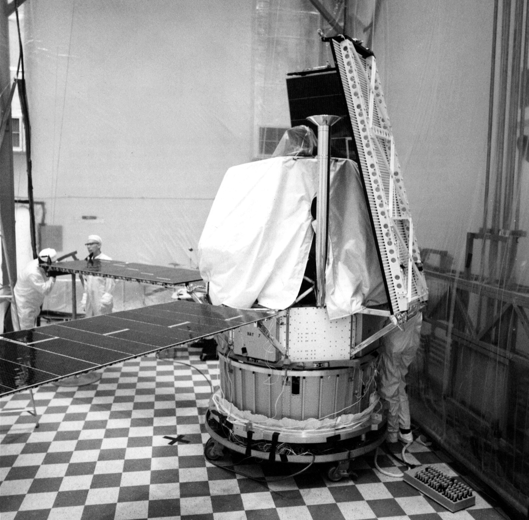 Technicians install solar panels aboard the mariner H spacecraft in a cleanroom facility at Cape Kennedy. The spacecraft will orbit Mars following a seven-month journey from Earth. Designed to function 90 days, the spacecraft, which will be designated Mariner 8 following launch, will provide data about the Red Planet's atmospheric and surface characteristics. Mariner Mars H will be launched aboard an Atlas-Centaur space vehicle no earlier than May 7, 1971, from Cape Kennedy's Launch Complex 36A. A second Mariner Mars spacecraft will be launched 10 days later.